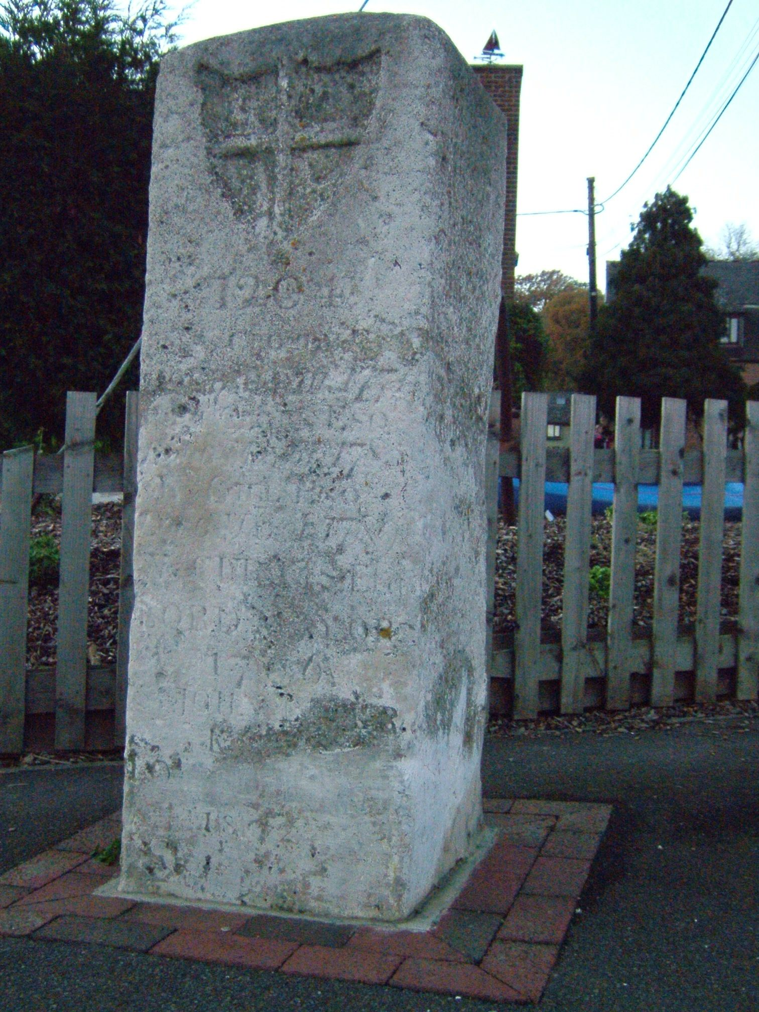 The Old London Stone, 1201, Upnor, Frindsbury, Kent. Taken by ClemRutter, 29 Nov 2006.